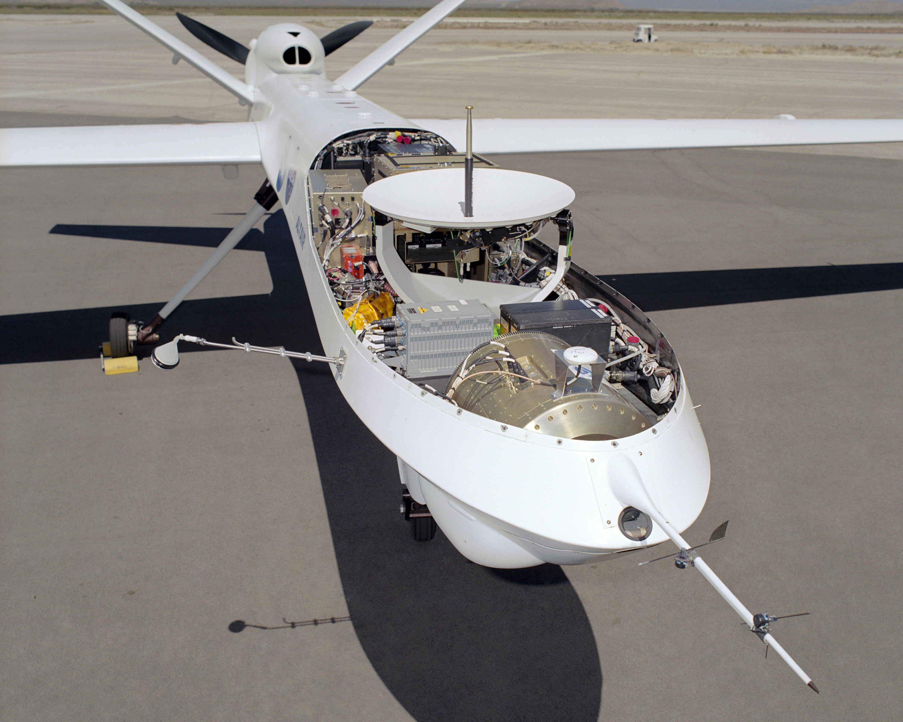 NASA Altair. A satellite antenna, electro-optical/infrared and ocean color sensors (front) were among payloads installed on the Altair for the NOAA-NASA UAV flight demonstration.